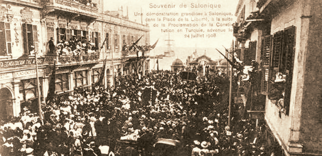 A postcard from 1908 celebrating the outbreak of the Young Turk Revolution in Thessaloniki, on 24 July.